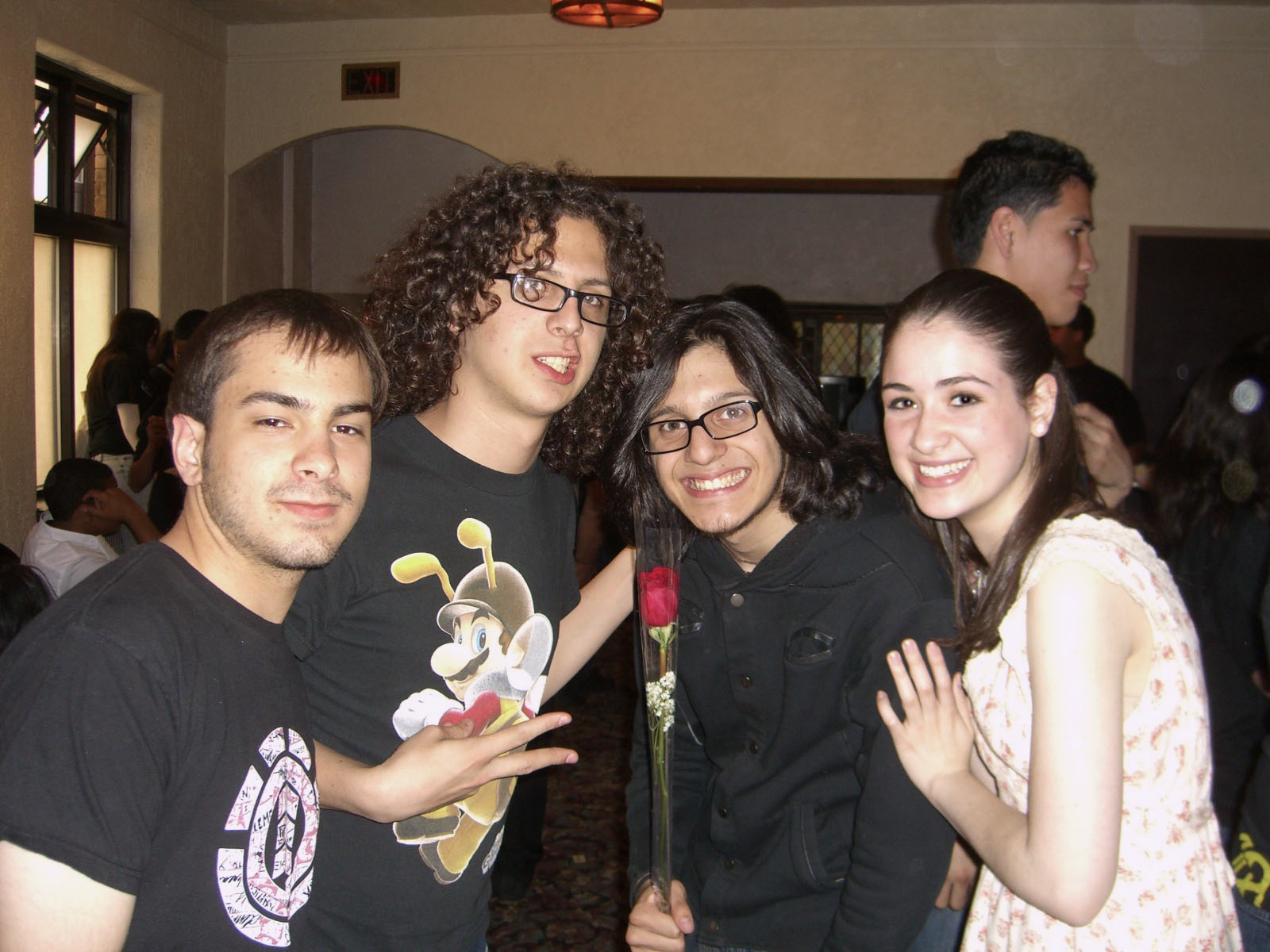 Students, artists during the closing luncheon of the 2008 Union City Multi-Arts Festival, at the Park Performing Arts Center in Union City, New Jersey, on May 29, 2008. The Festival is a two-day event held annually since 1981, in which students from various schools in Hudson County, New Jersey display their artwork, put on musical performances, and conduct workshops in various disciplines such as sculpture, portraiture and caricature. The girl in the white floral dress at right is actress/singer Allison Strong, who performed in the Festival, and was due to graduate as salutatorian from Union City High School, North Campus, and went on to appear in Broadway productions of Bye Bye Birdie and Mamma Mia! This photo was created by Luigi Novi. It is not in the public domain, and use of this file outside of the licensing terms is a copyright violation.